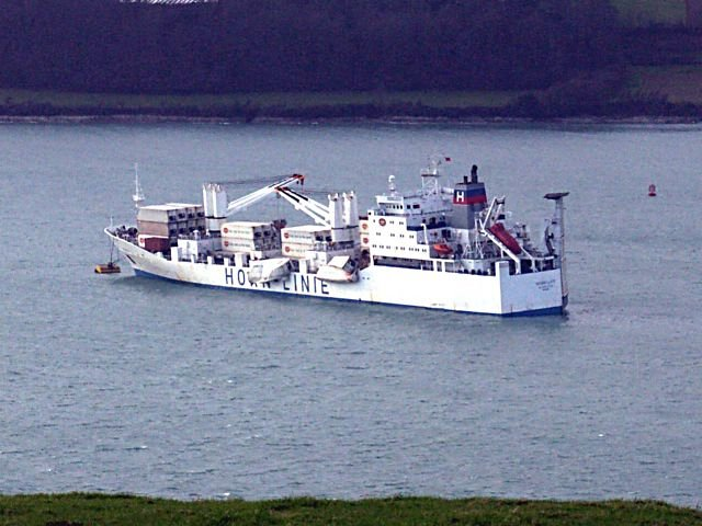 Horncliff moored in Carrick Roads IMO Number: 8912041 MMSI Number: 636009672 Callsign: ELOV9 Length: 153 m Beam: 23 m